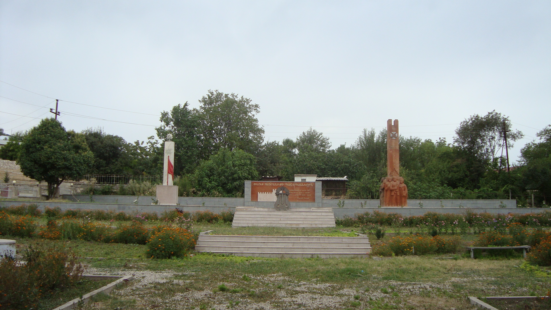 A monument in honor of liberators. Askeran, Republic of Mountainous Karabakh (Artsakh).